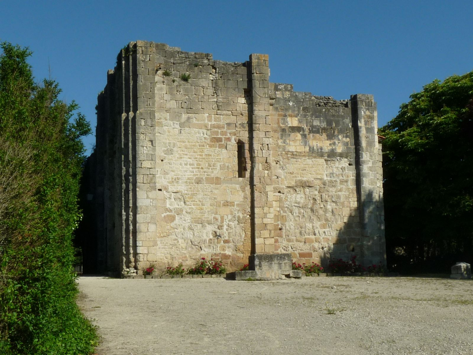 old castle and keep of Montignac, Charente, SW France